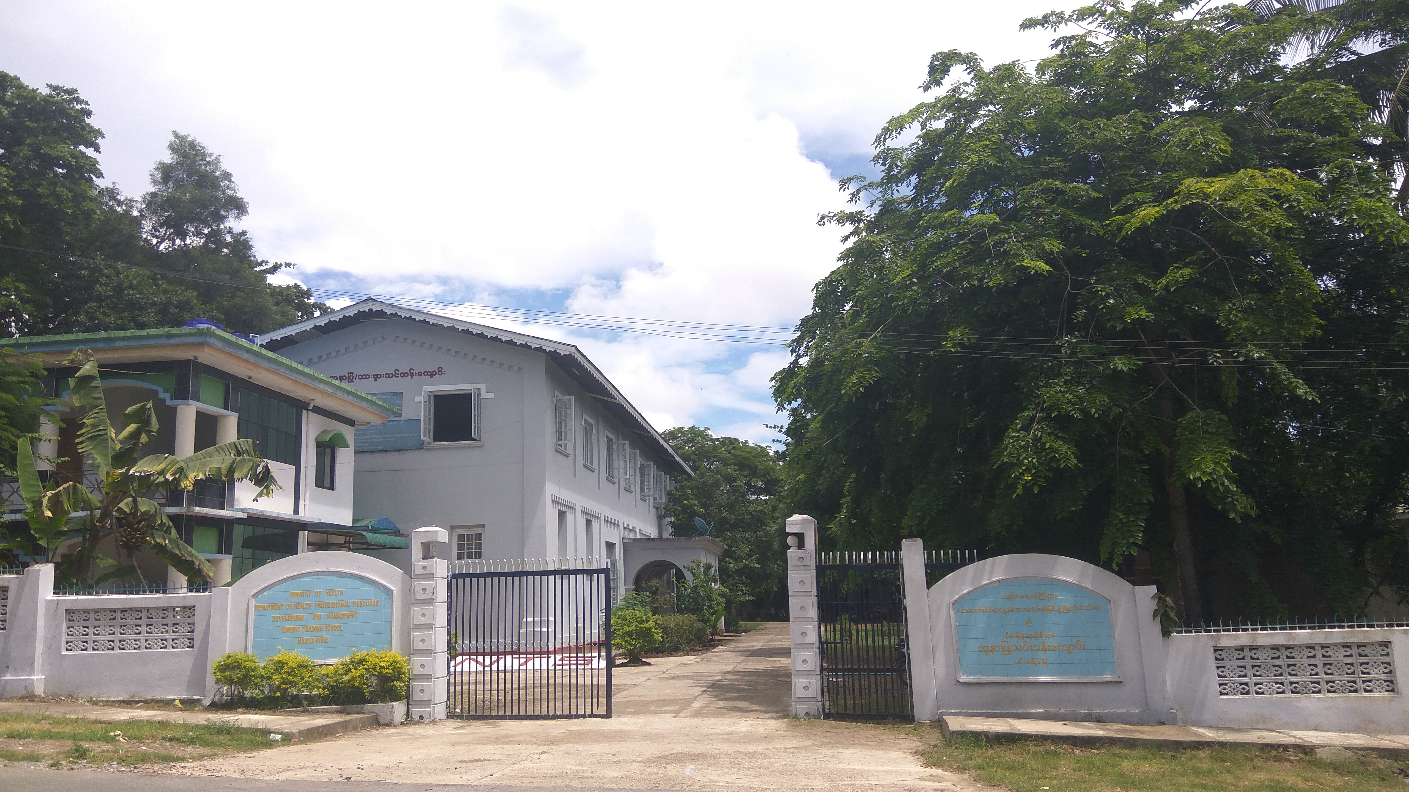 Nursing Training School Mawlamyine, Mawlamyine, Mon State မြန်မာဘာသာ: သူနာပြုနှင့်သားဖွားသင်တန်းကျောင်း မော်လမြိုင်၊ မော်လမြိုင်မြို့၊ မွန်ပြည်နယ်